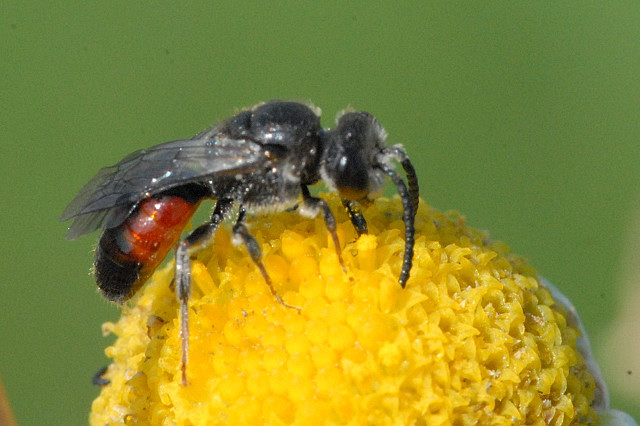 Sphecodes monilicornis from Commanster, Belgian High Ardennes .